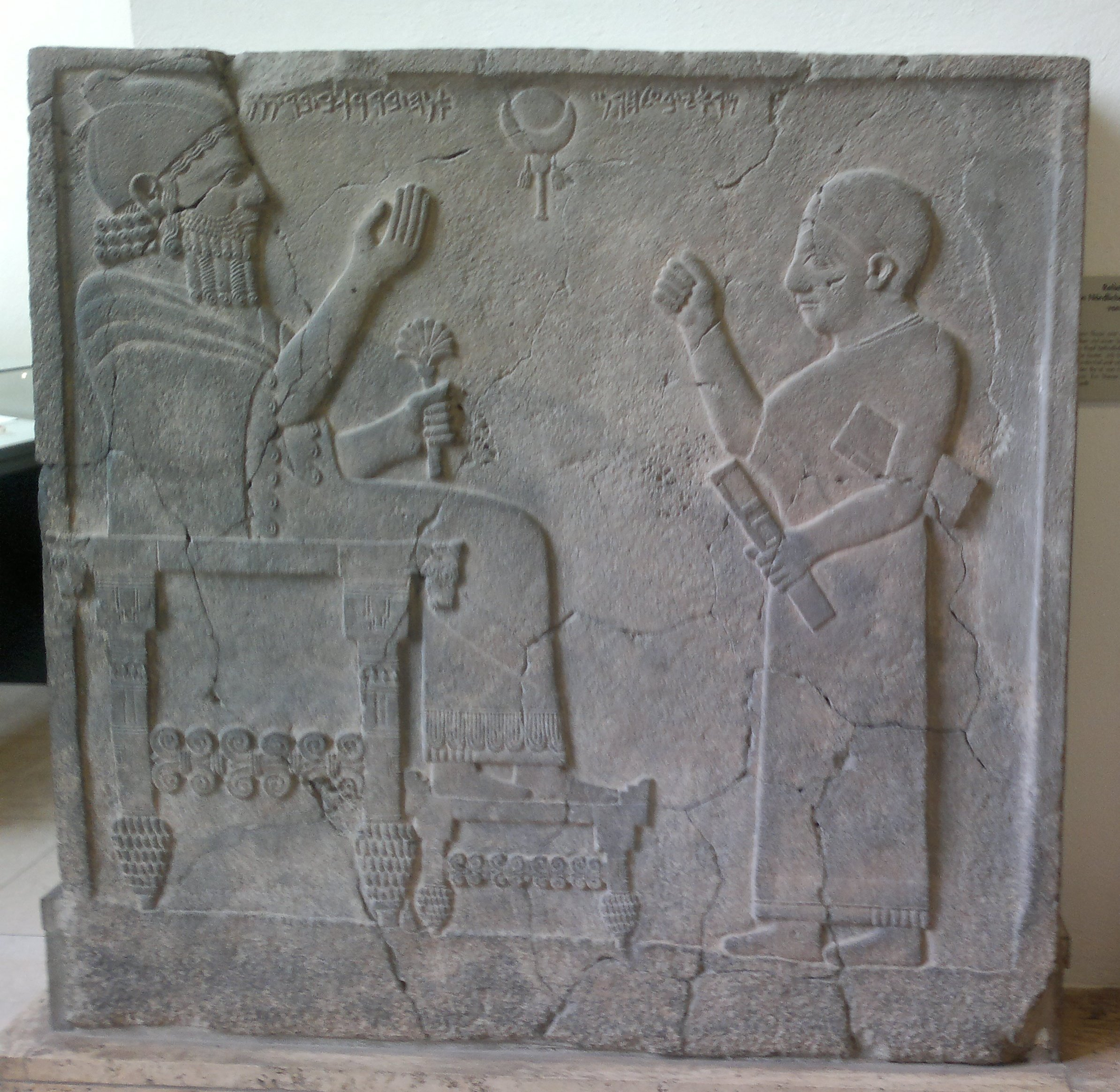 Orthostat relief showing prince Barrakib and a writer. Zincirli, c. 730 BC. Basalt, height 1.13 m. Pergamon Museum, Berlin.